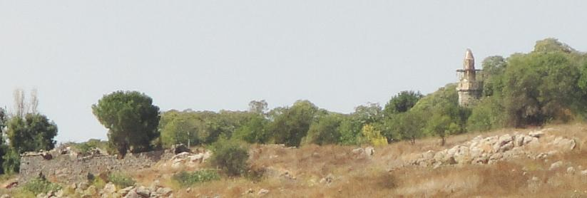 Picture of Salmaniya.